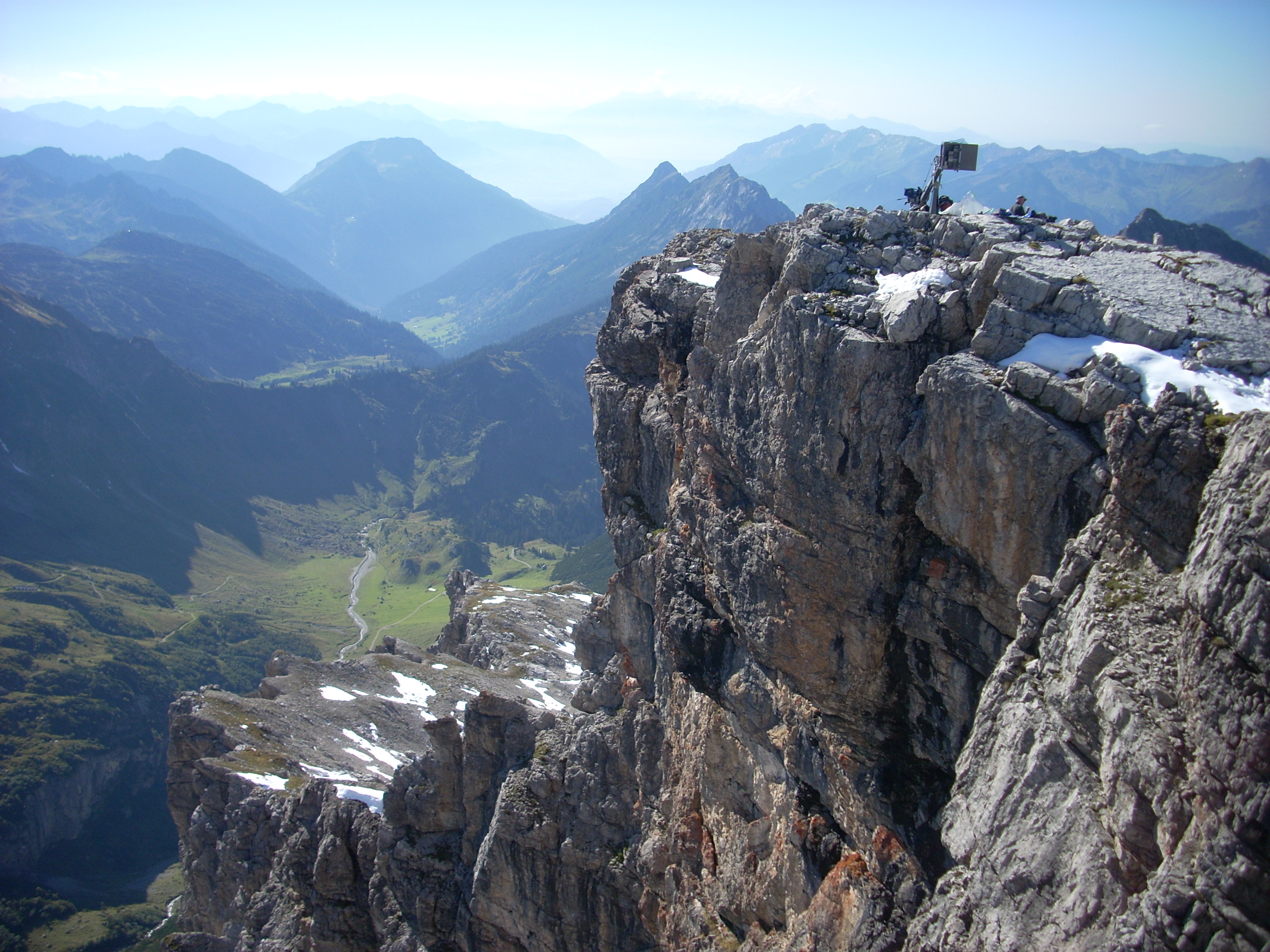 mountains